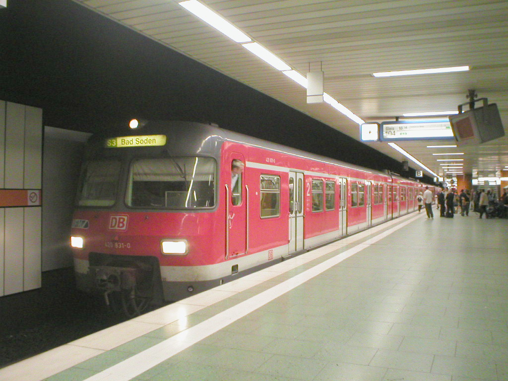 S-Bahn type 420 at the station Frankfurt am Main Hauptbahnhof (Main Station)